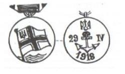 Медаль Украинского Флота, 1919 год.